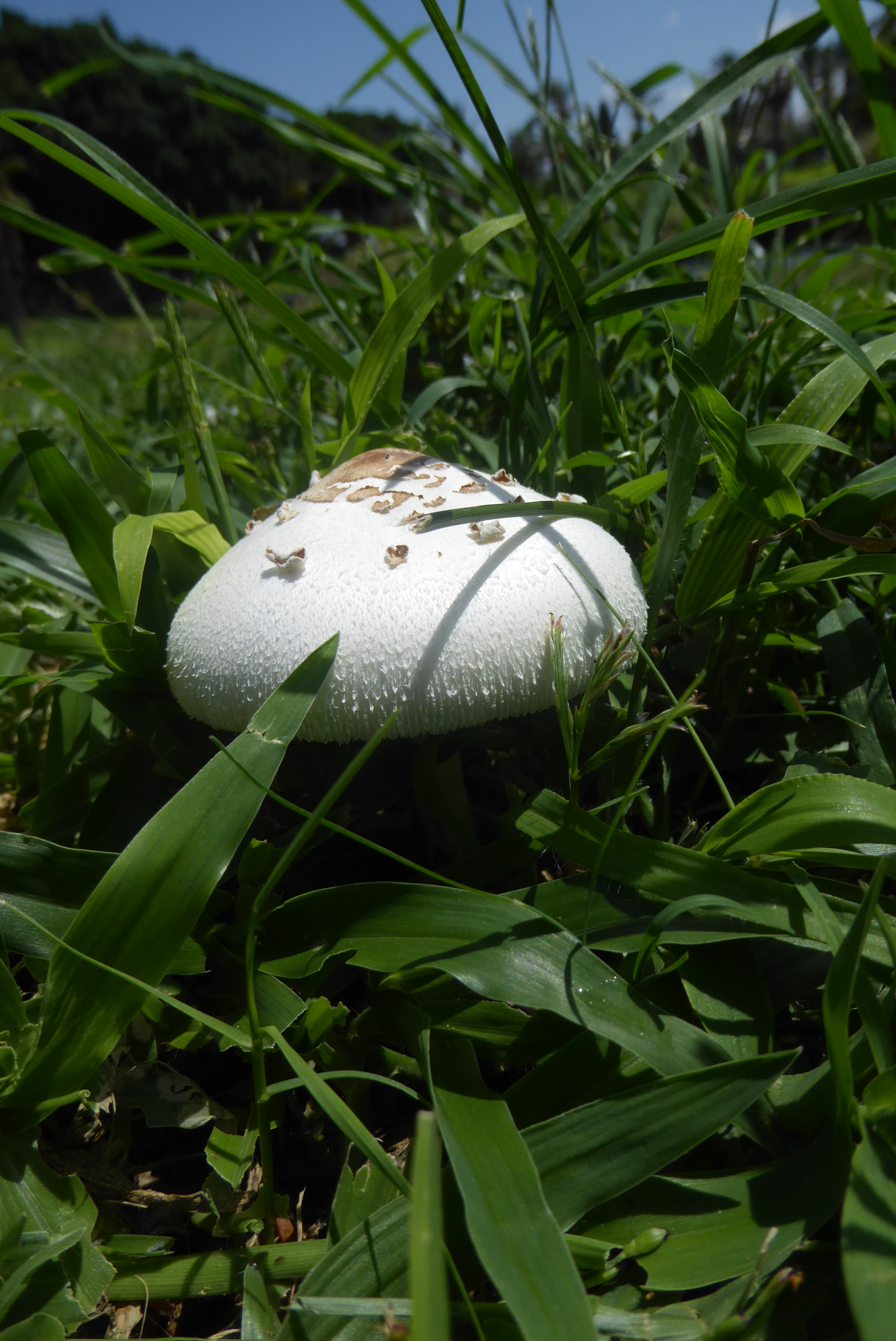 Edith Wolfson Park